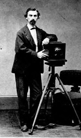 George M. Bretz self-portrait. Bretz Collection, UMBC Accession Number 73-02-227